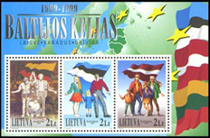 Souvenir sheet of Lithuania: Participants of the Baltic Way in Lithuania, Estonia and Latvia. Joint issue of Lithuania, Estonia and Latvia